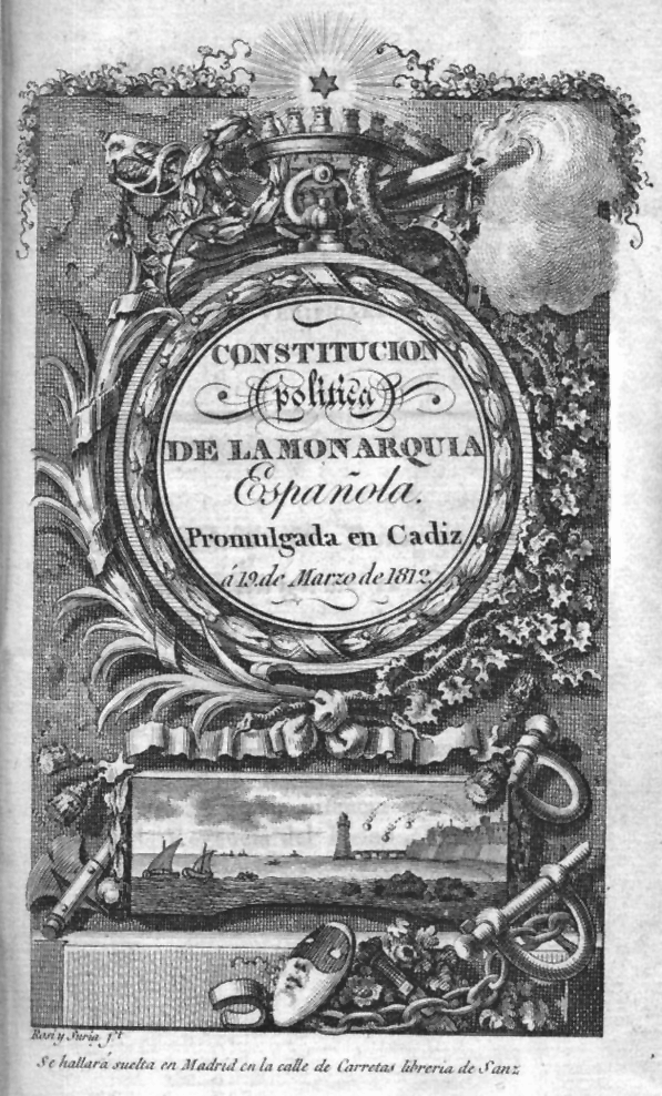 Frontispiece of a contemporary edition of the Cadiz Constitution of 1812.